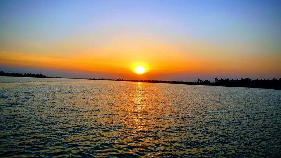 Gloaming on Hau river